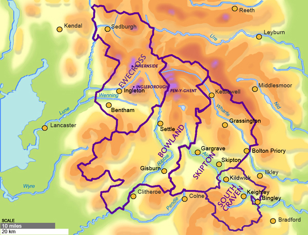 In the Anglican Church Archdeaconry 542 is named Craven. It has four Deaneries: Ewecross, Bowland, Skipton and South Craven. Compared to civic districts Craven is much larger than civic DIstrict of Craven of North Yorkshire. In particular the north of Ewecross is in Cumbria county, the lower part of South Craven is in West Yorkshire, and south-west Bowand is in Lancashire county. Source of data . In Feb 2011 the Church of England announced it is considering charging the boundary of Bowand to match that of civic Lancashire, but this is unlikely to happen before July 2013.